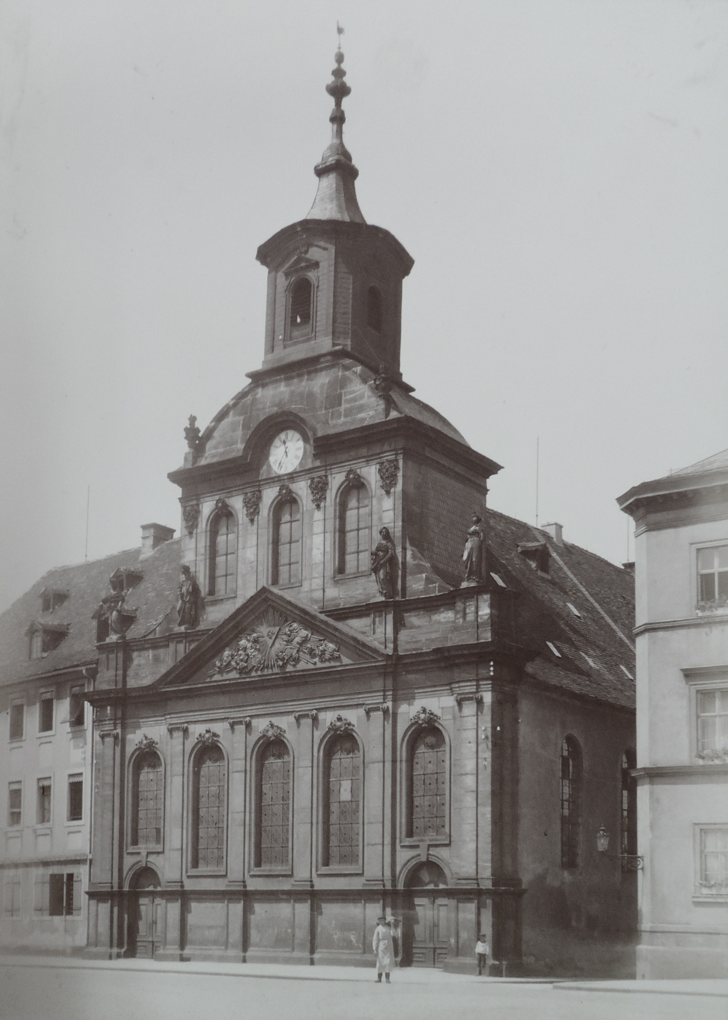 Views and photos of Bayreuth, Germany, gifted to Ferdinand I of Bulgaria to commemorate his 25-year rule. Hospital church from 1748.